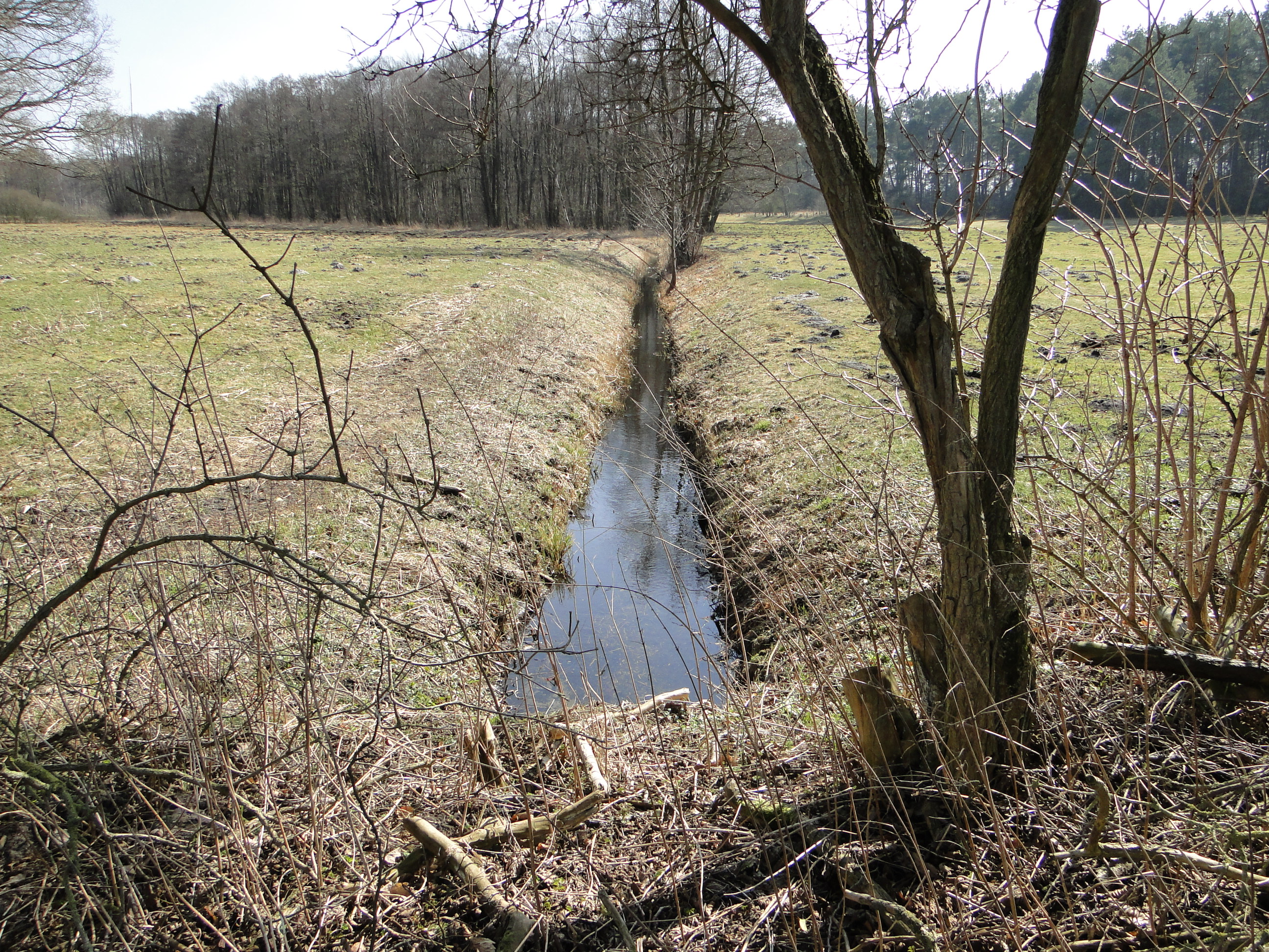 Jasenitz in Lüschow, district Parchim, Mecklenburg-Vorpommern, Germany